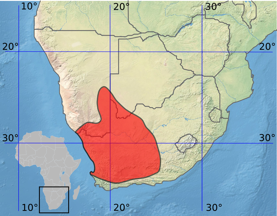 Parotomys brantsii distribution